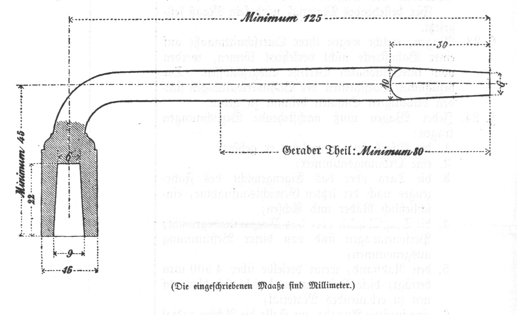 This is a scan of the historical document